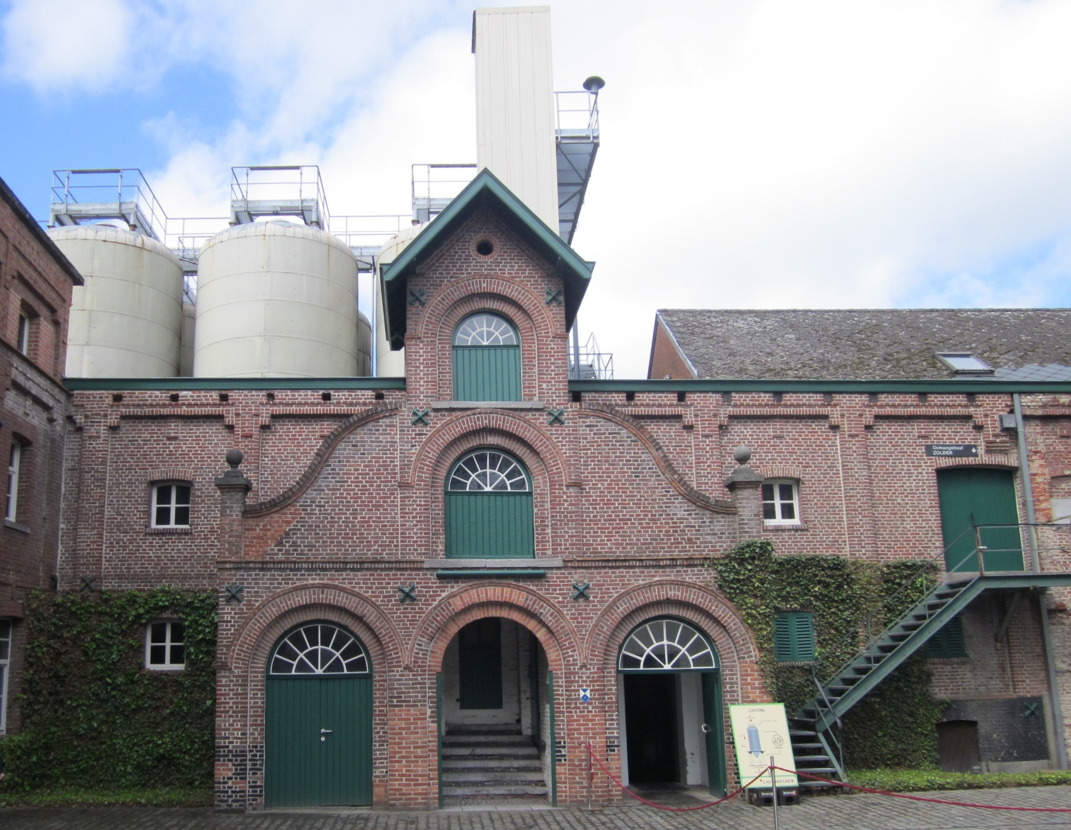 Rodenbach brewery in Roeselare (Belgium): Former malt house (1864)